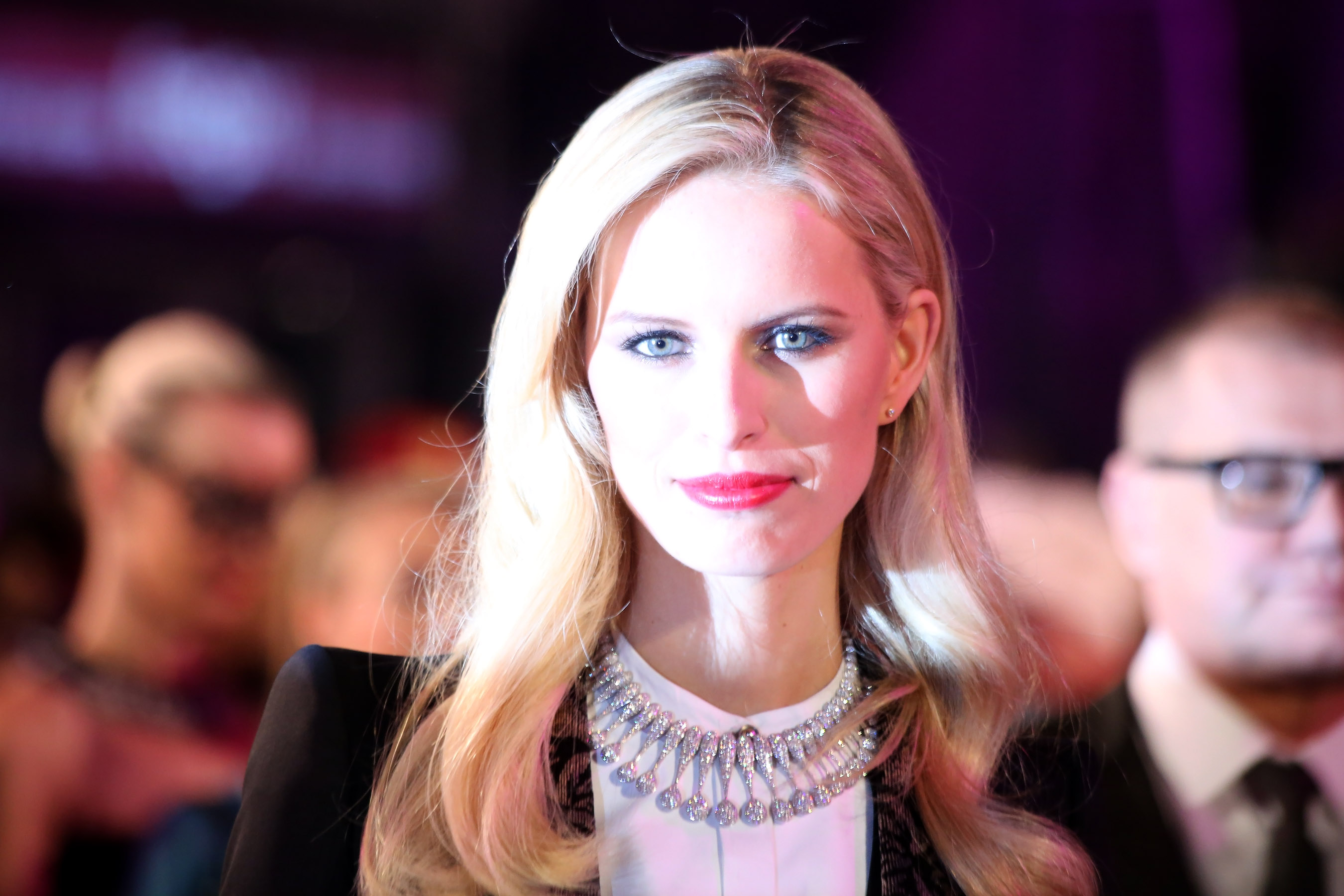 Karolína Kurková on the 'magenta carpet' at Life Ball 2013 at the square in front of the city hall of Vienna, Vienna, Austria.